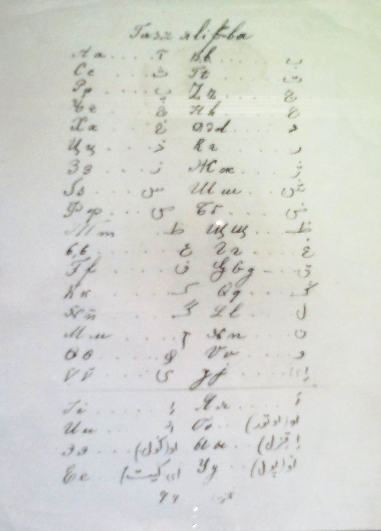 Project of new Azerbaijani alphapet by Mirza Fatali Akhundov. Museum of History of Azerbaijan.